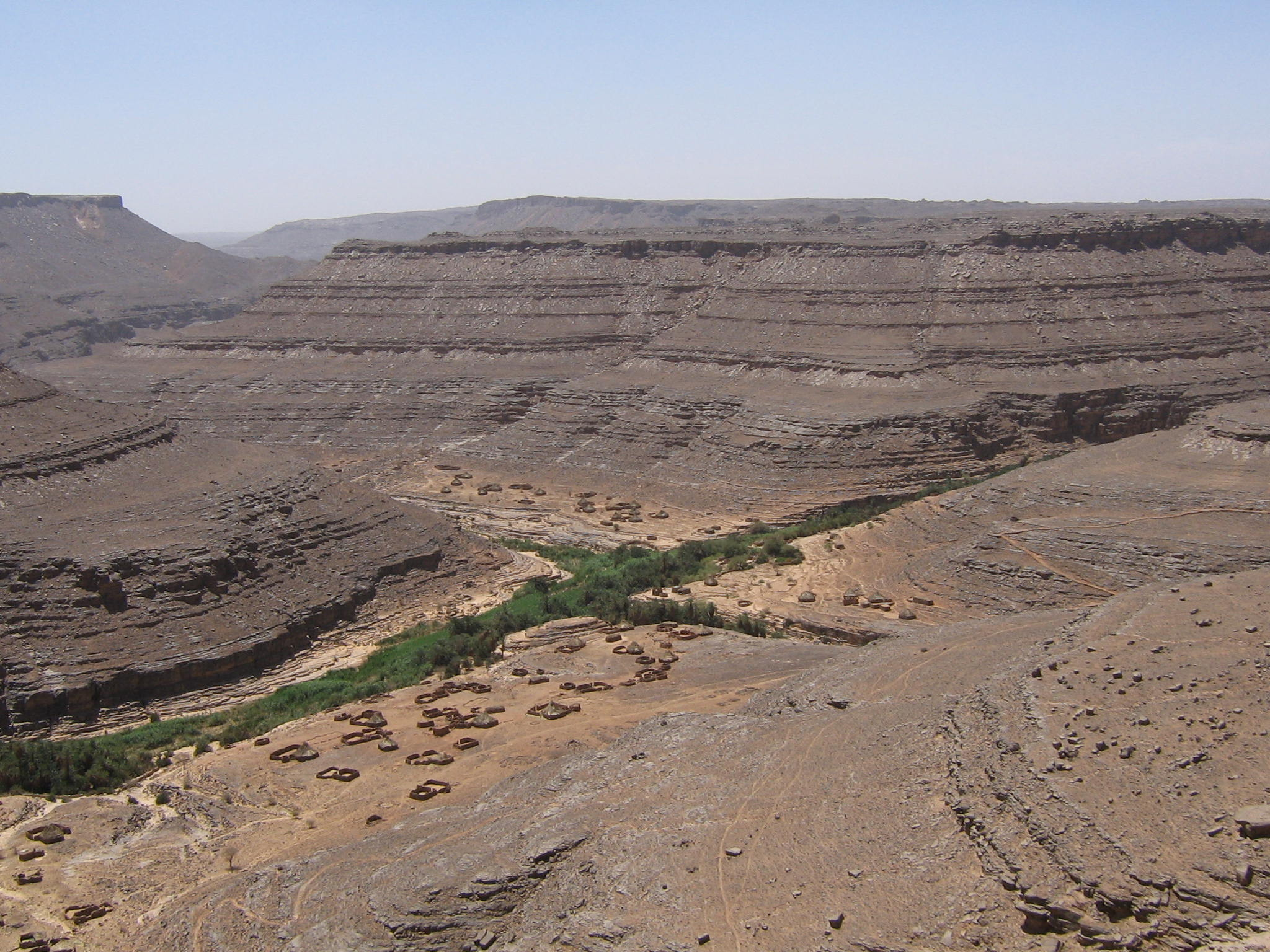 Tassili N'ajjer in desert of Algeira صور لمباني بدائية وسط سلسلة من الجبال الصخرية في منطقة الطاسيلي ناجّر بجانت صحراء الجزا ئر